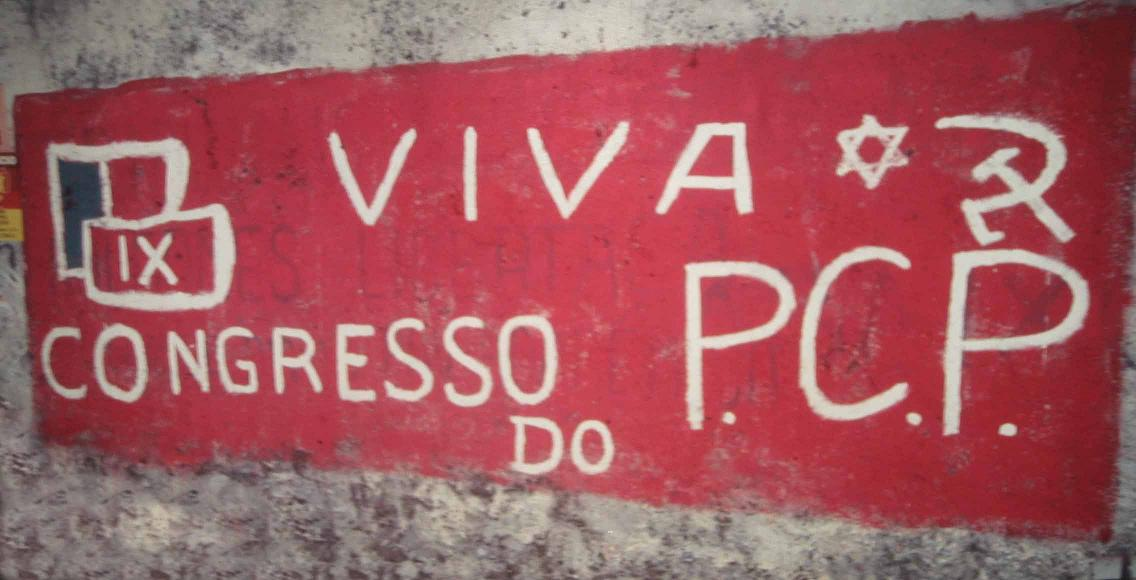 IX Congress of PCP